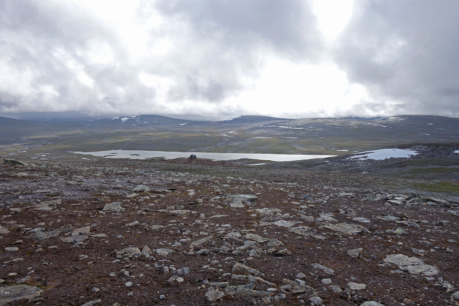 View from the ancient mining area on Mount Nasafjäll towards Lake Silbbajávrrie (=Silver lake) and the miners' hut.